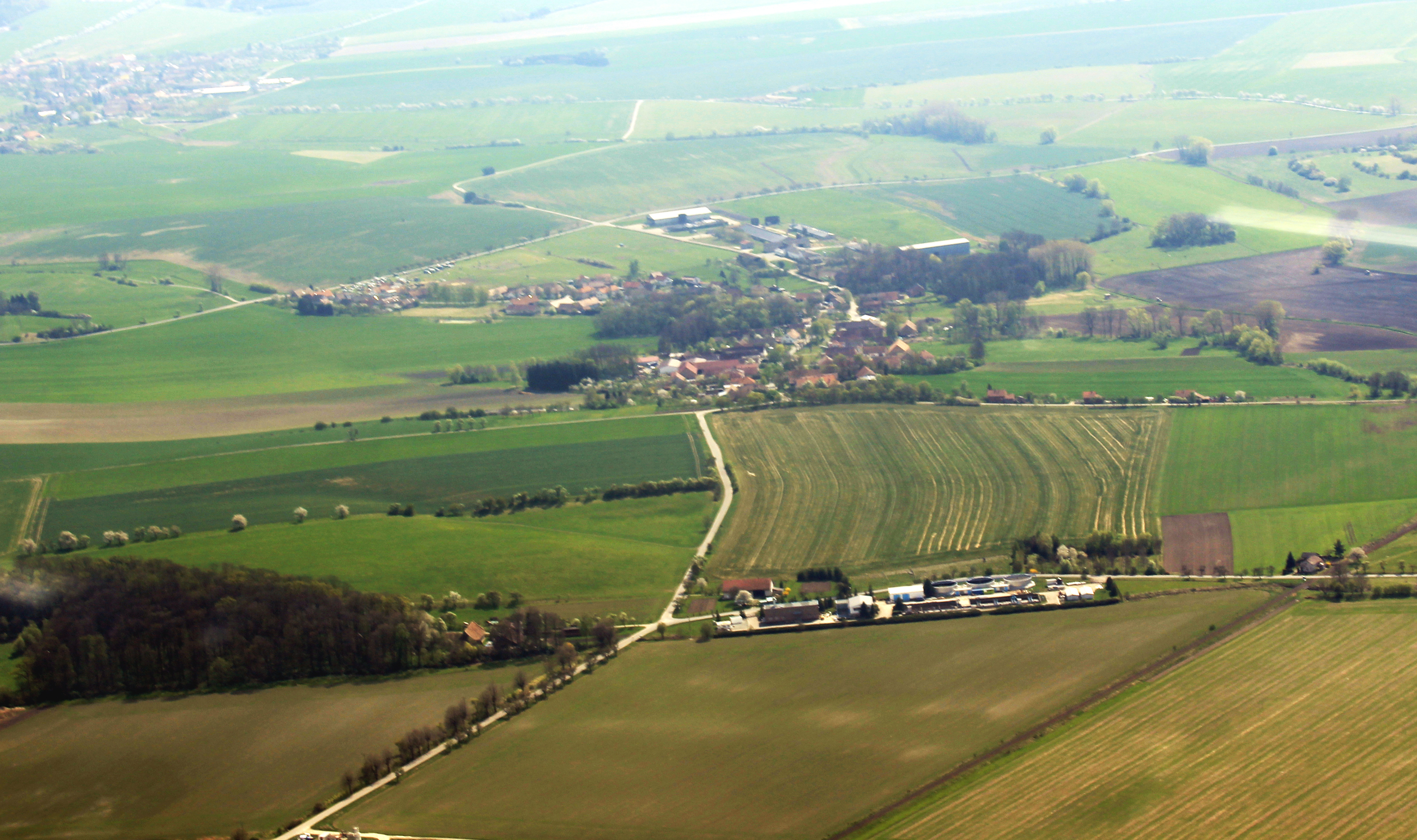 Small village Čánka, part of town Opočno in Rychnov nad Kněžnou District from air, eastern Bohemia, Czech Republic